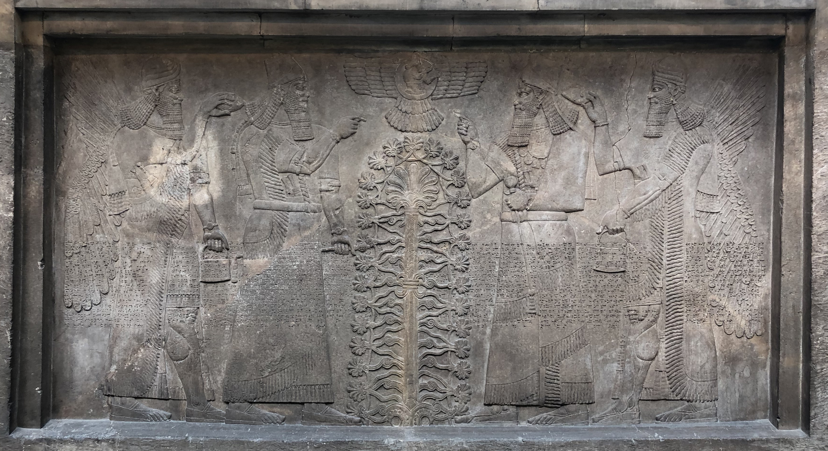 Symbolic scene - King Ashurnasirpal appears twice in front of the sacred tree. Protective spirits accompany him. 865-860 BC. British Museum.